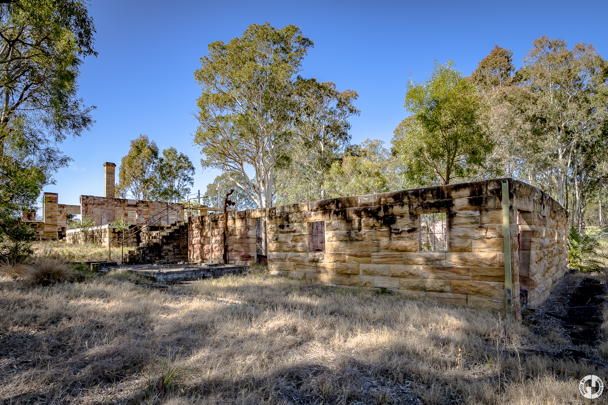 The recreation hall was built from timber and stone quarried on site and crafted by the internees. The quality of the stonework indicates skilled stonemasons were among those held at Holdsworthy. The roofline contained a number of turrets and wide verandahs. The hall was for use by the camp guards and army personnel. The YMCA provided 'comforts' like reading material, sporting equipment, writing material, books, newspapers, cigarettes, shaving cream and chocolate etc. The building was destroyed by a bushfire c2002.